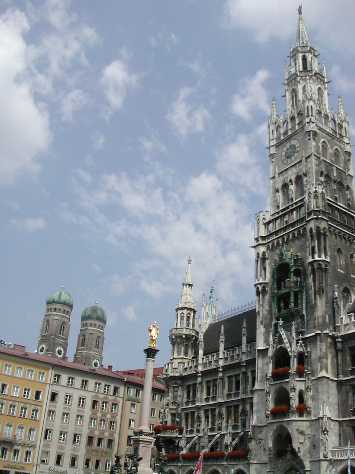 Photograph taken Summer, 2005, by Benjamin Lipiecki